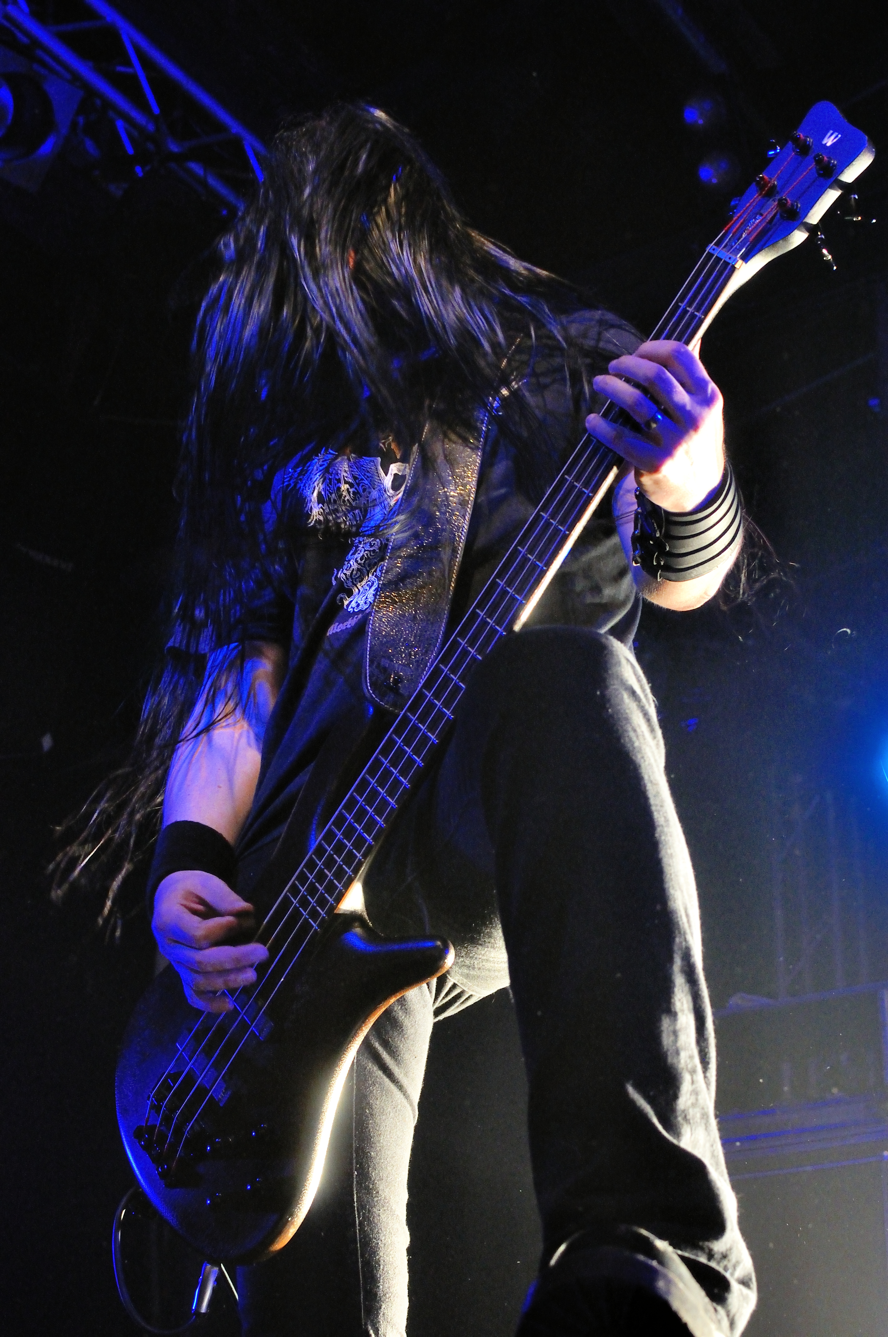 Six Feet Under at Hatefest 2015 in Berlin.